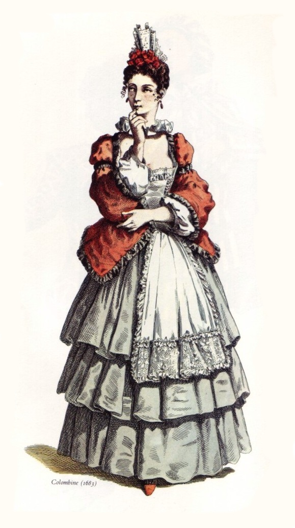 Columbine, year 1683 (a mid-19th century costume imitating late 17th century styles, including fontange)